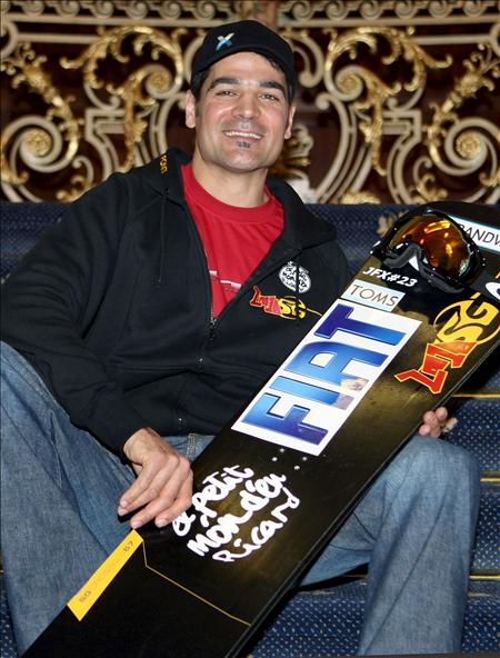 jordi font image